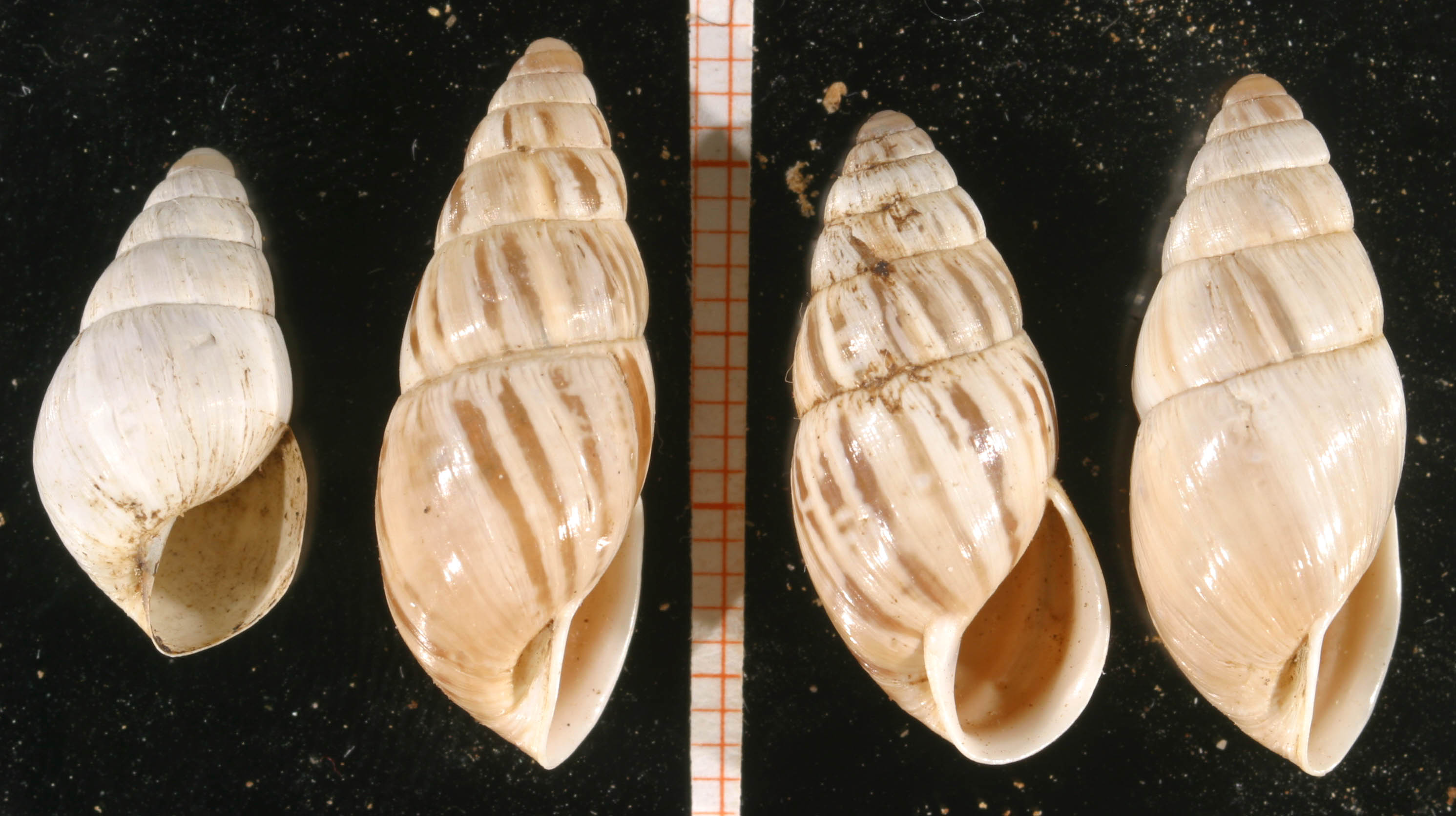 shells of Zebrina detrita (O. F. Müller, 1774). Locality: Szersonlyo, Hungary.